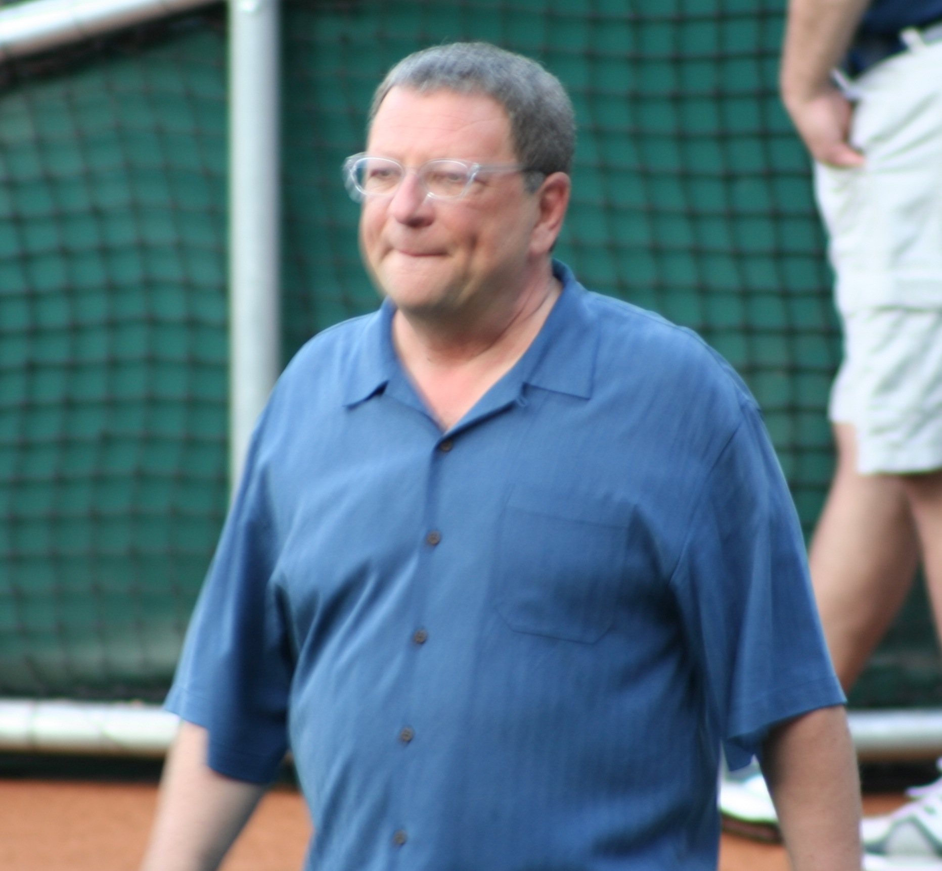 L.A. Dodgers broadcaster Charley Steiner in 2008. Photo courtesy of pvsbond, via Flickr. This file has been extracted from another file: Charley Steiner 2008.jpg